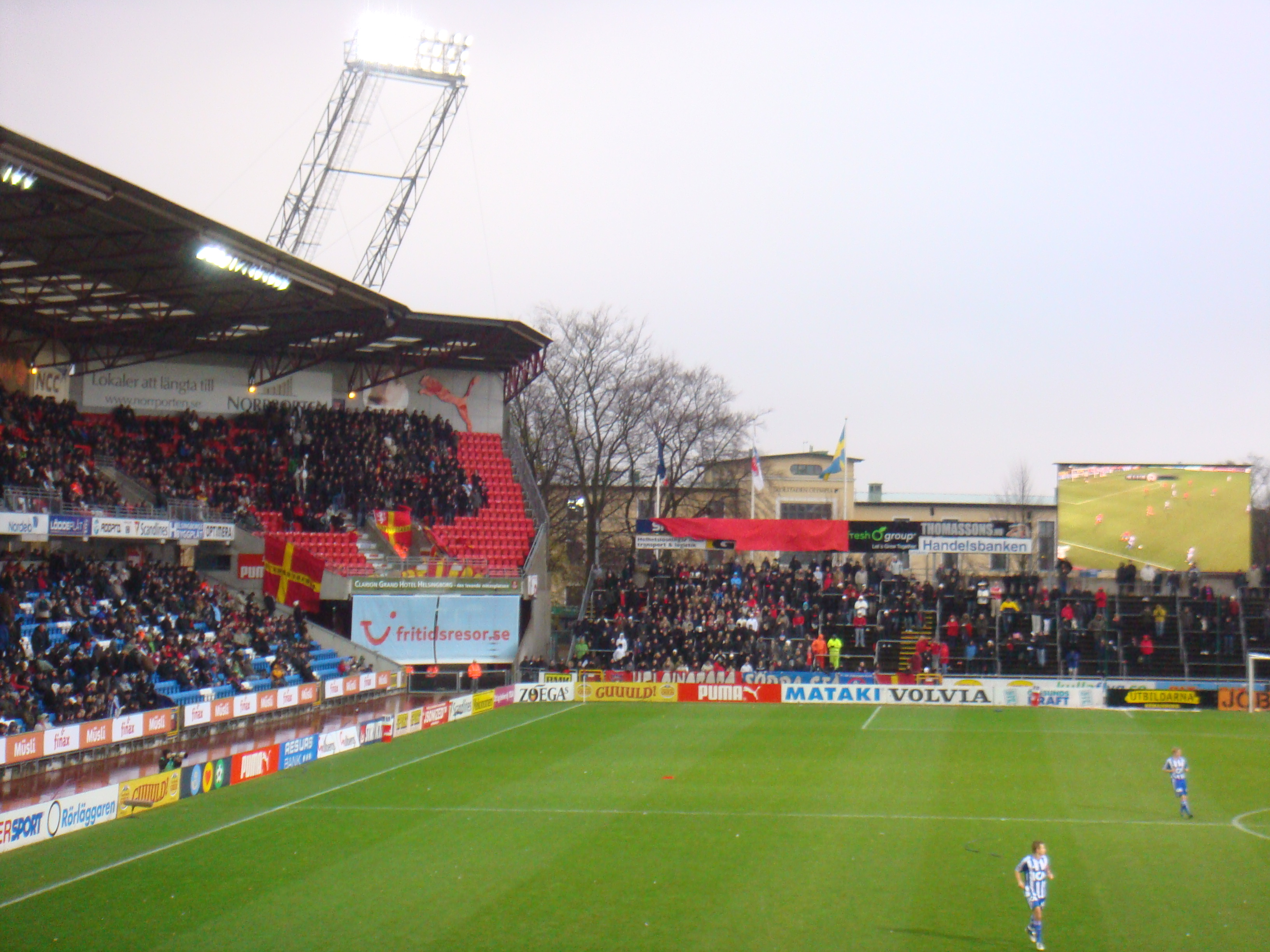 sprots arena Olympia in Helsingborg, Sweden during the 9 November 2008 Fotbollsallsvenskan top game between Helsingborgs IF and IFK Göteborg (2-1)